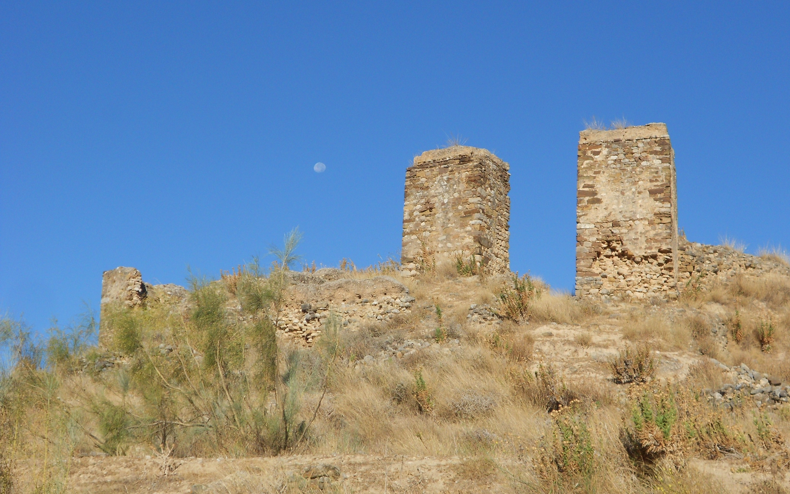 The ruins of the castle of Zalía